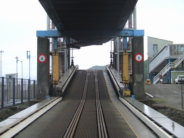 Train and truck/car loading ramp at Picton Ferry Terminal, South Island, New Zealand. The three interlaced tracks align with the tracks on the ferry rail deck. The upper ramp connects with the road deck for cars/trucks only. The ramp at the Wellington (North Island) Terminal is similar.